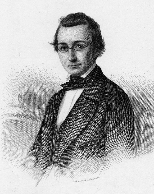 Copperplate portrait of the Egyptologist Karl Richard Lepsius. Engraved by Alexander Alboth, circa 1850.